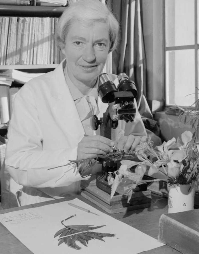 Lucy Beatrice Moore, botanist, looking at a plant specimen with a microscope